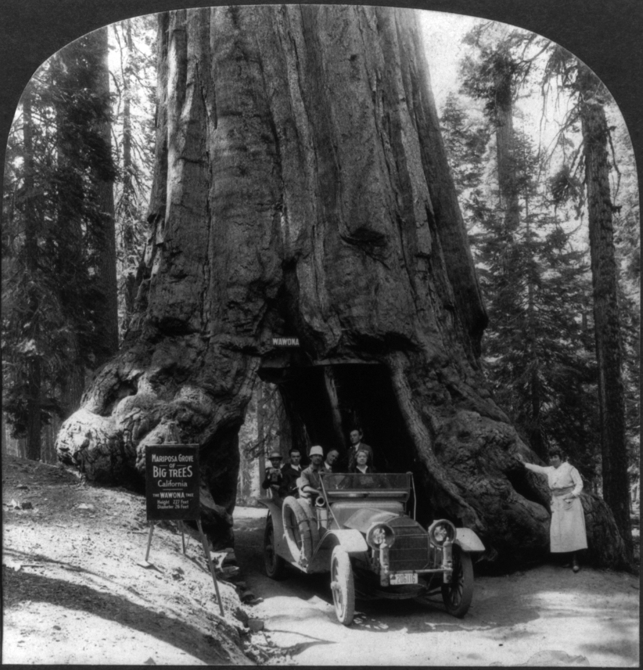 The Wawona tree, Mariposa Grove, Yosemite Valley, Cal. Half of a stereograph.